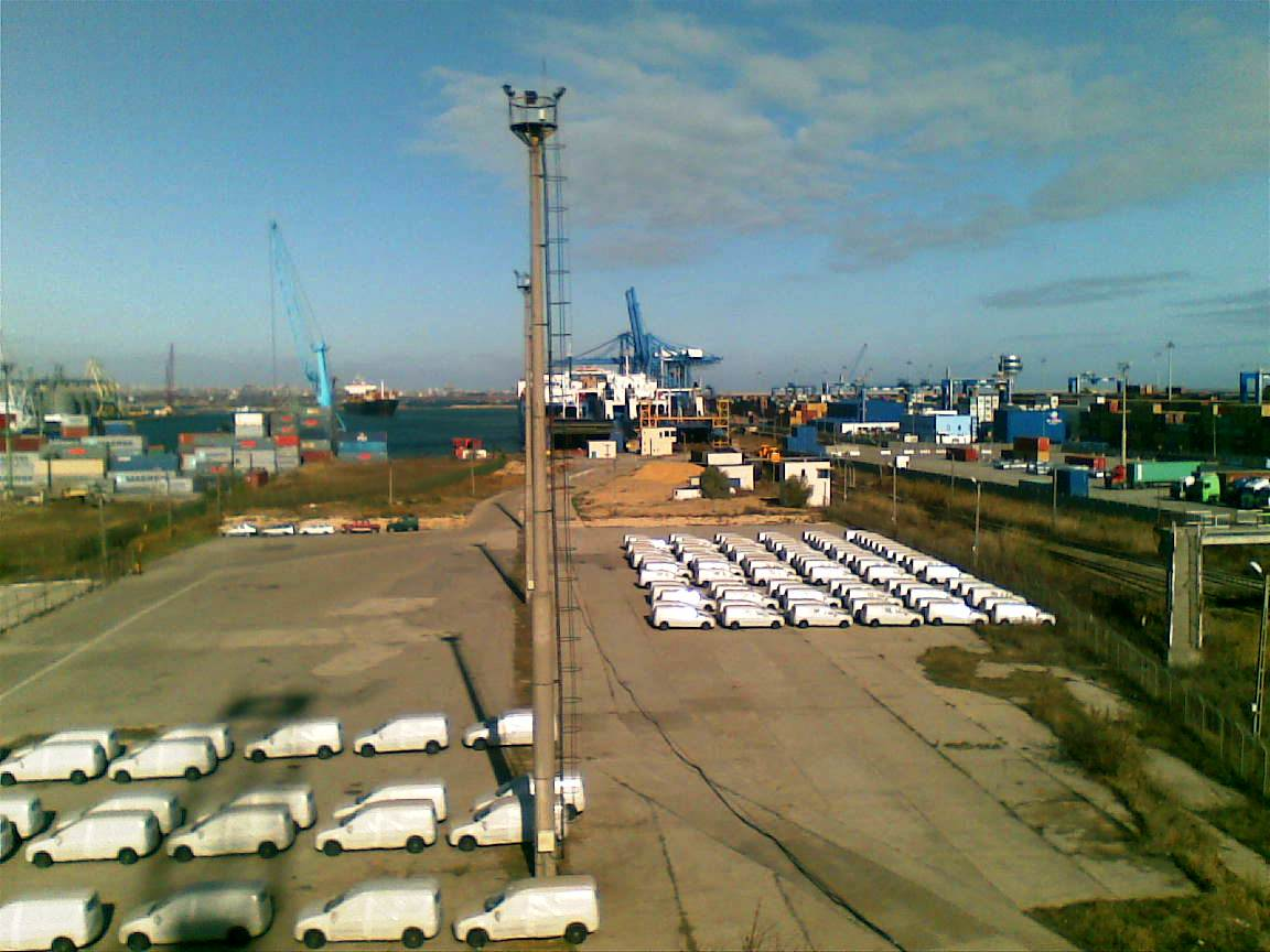 SC TMC CFR Ferry-Boat SA Constanta Romania